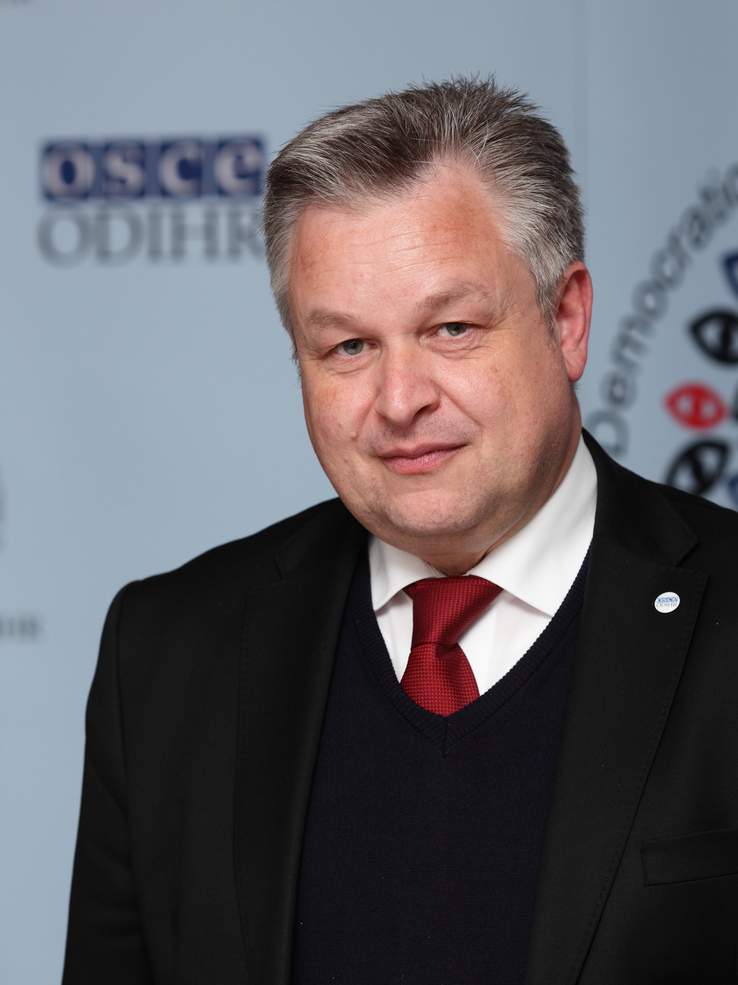 Michael Georg Link, Director of the OSCE Office for Democratic Institutions and Human Rights